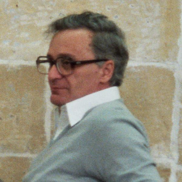 Leonid Shamkovich at the Chess Olympiad 1980 in Malta, Photographer Gerhard Hund.